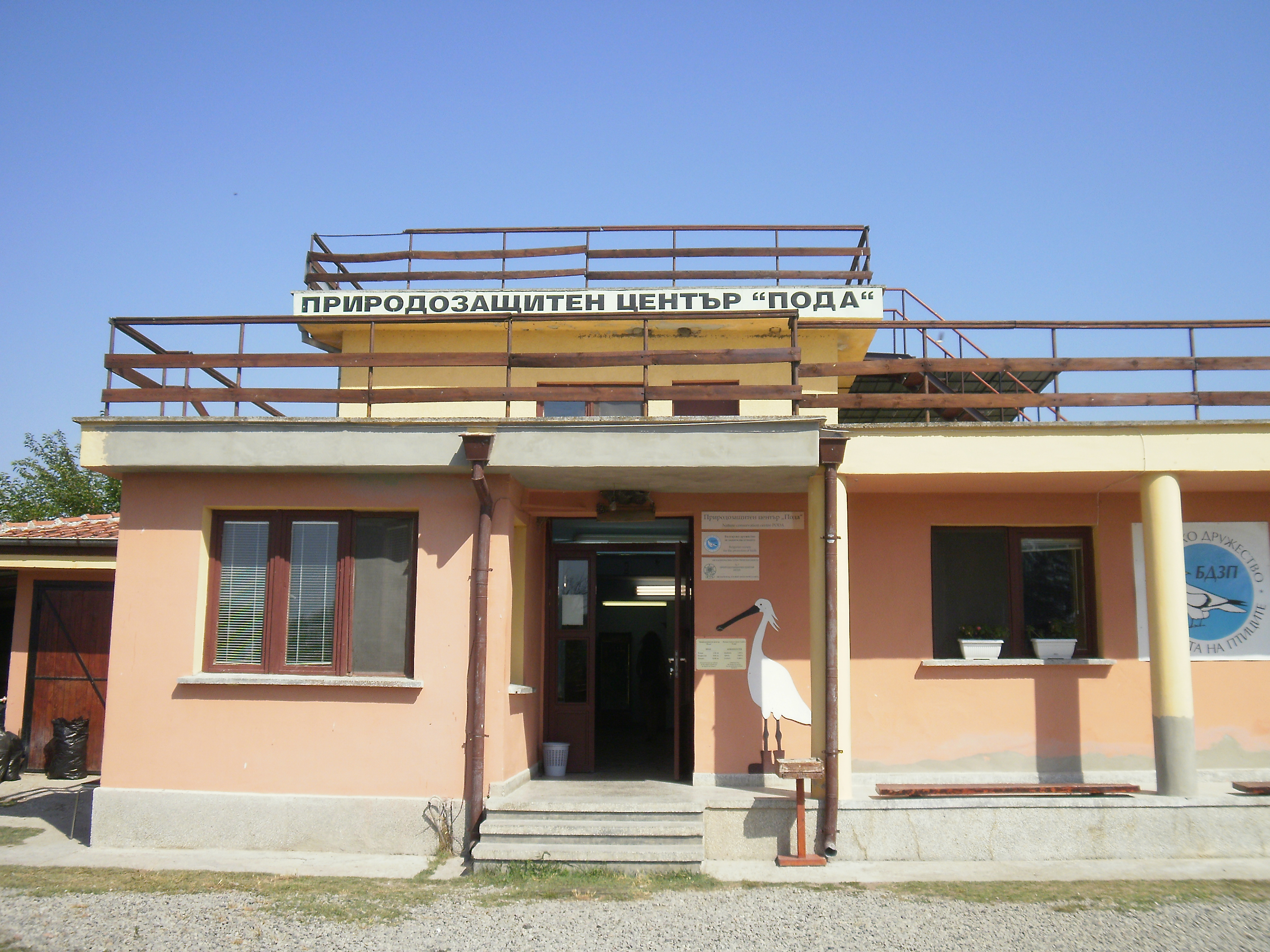 Nature conservation centre Poda, Bulgaria.